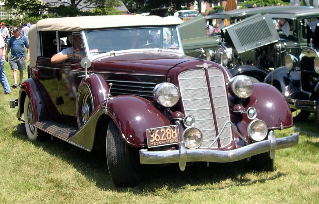 1934 Buick Series 60 Convertible Phaeton